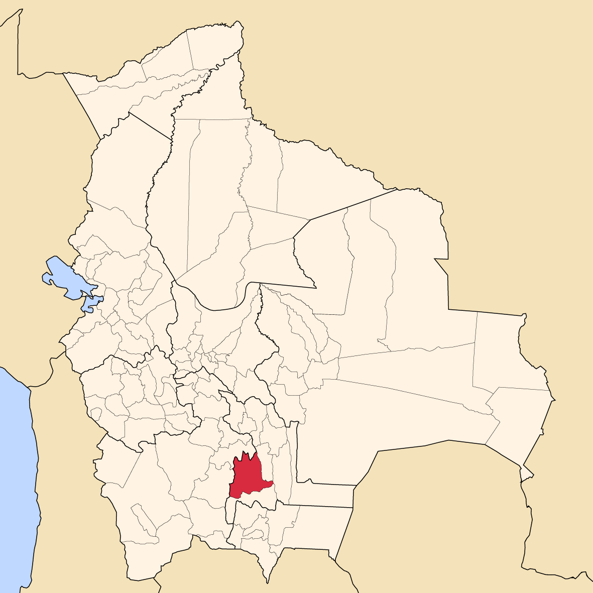 Map of Bolivia showing Nor Cinti province, Chuquisaca